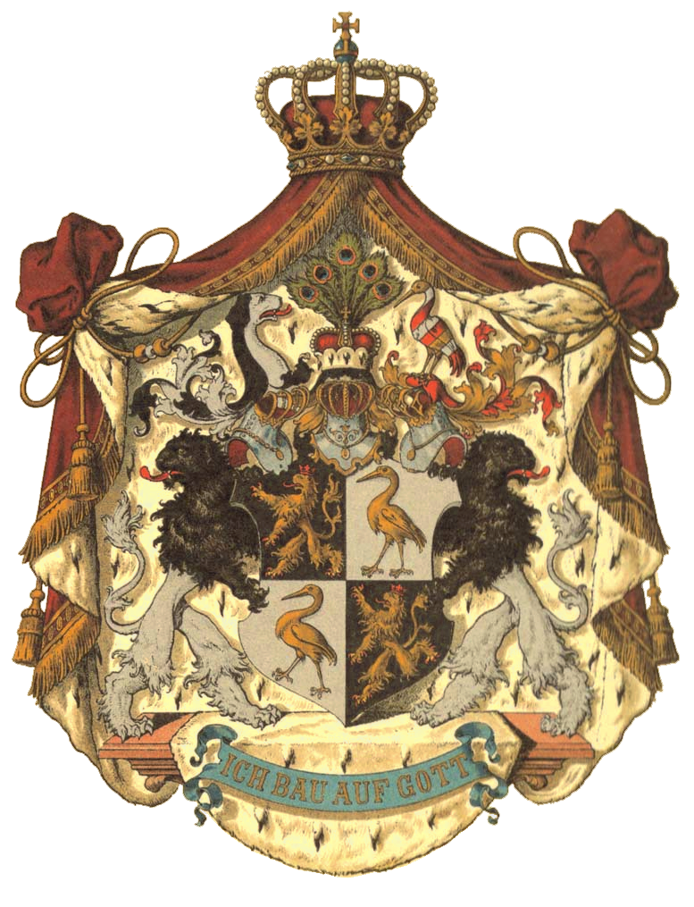 Coat of Arms of the Principality of Reuss Junior Line